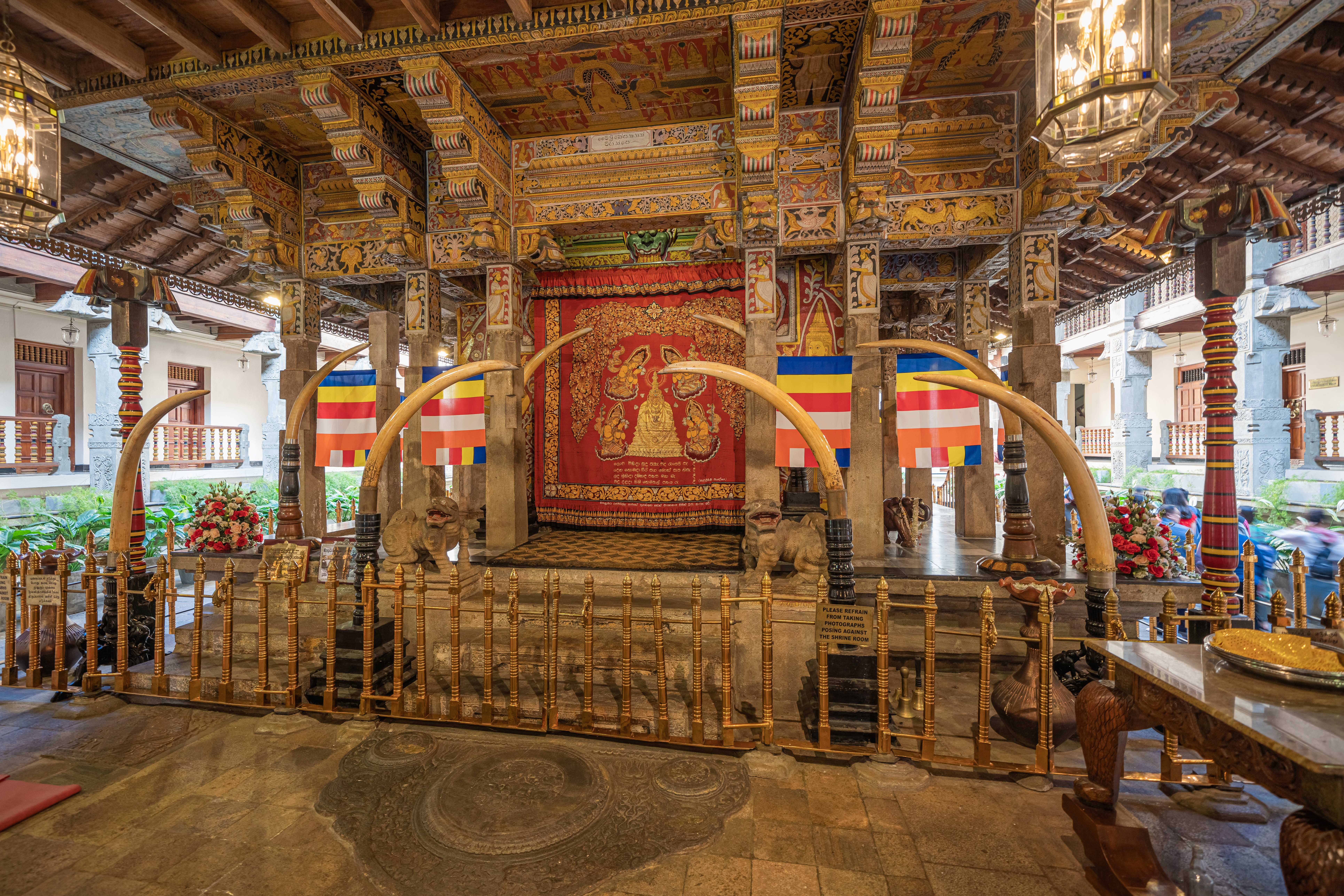 Sacred Tooth Temple in Kandy, Sri Lanka